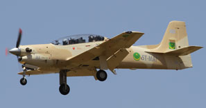 [Bakari Gueye] The Mauritanian army is receiving training from French pilots.